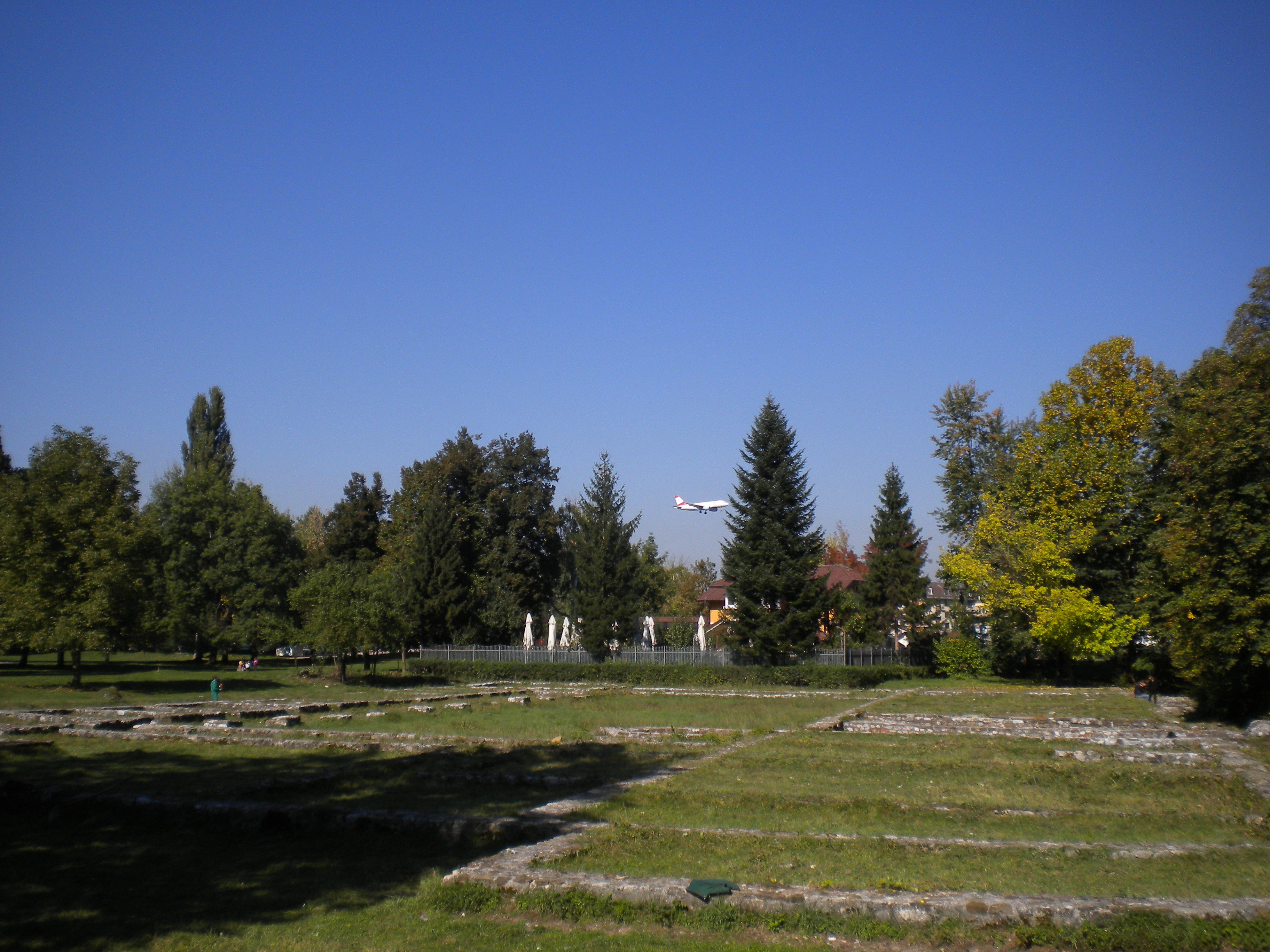 Roman civilisation on Ilidža